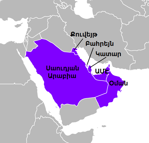 Ersian Gulf Arab States armenian